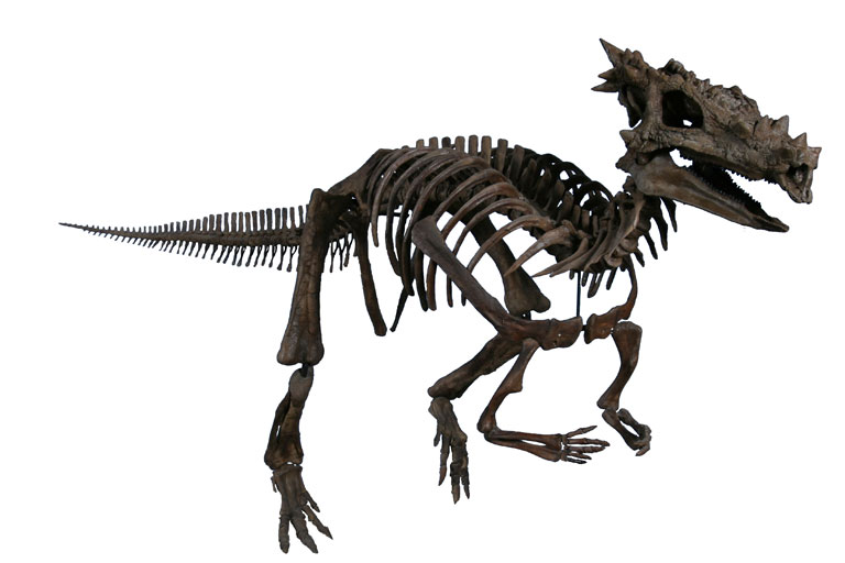 This Dracorex skeletal reconstruction (Dracorex hogwartsia) is in the permanent collection of The Children’s Museum of Indianapolis. The skull is a restored cast of Dracorex h, the body is a cast Pachycephalosaurus w. by Triebild Paleontology, Inc in Colorado.